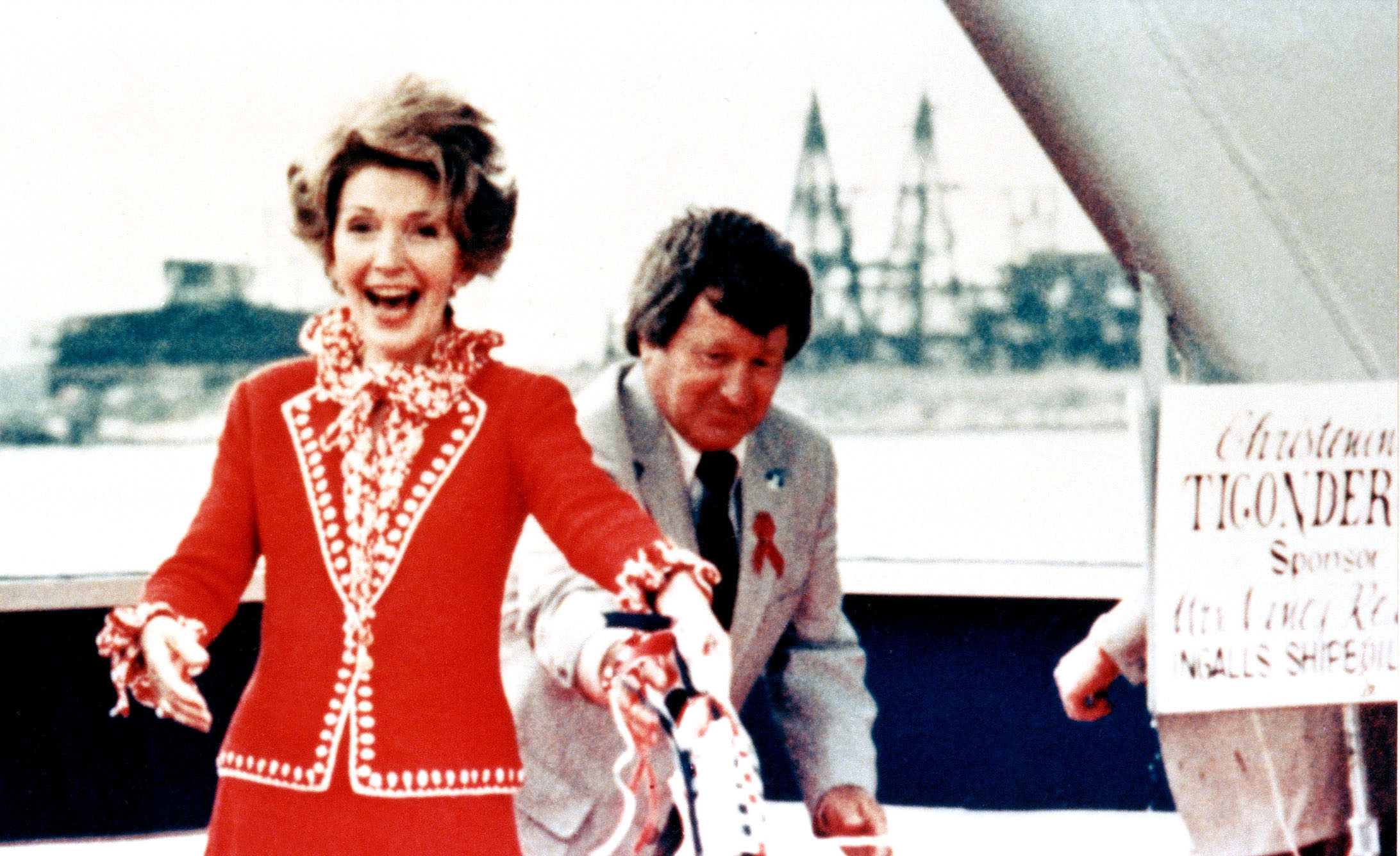 Sponsor Nancy Reagan breaks the traditional bottle of champagne across the bow of the Aegis guided missile cruiser USS TICONDEROGA (CG-47) during the christening ceremony, as other distinguished guested watch.Location: PASCAGOULA, MISSISSIPPI (MS) UNITED STATES OF AMERICA (USA)